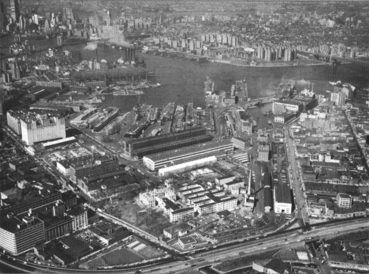 Aerial view of the U.S. Navy Brooklyn Navy Yard, New York, circa 1965. The aircraft carrier in dry dock is USS Intrepid (CVS-11), which underwent a major overhaul from April to September 1965. The shipyard was closed on 23 February 1966. It had been in operation for 165 years with 93 ships being constructed at the yard.